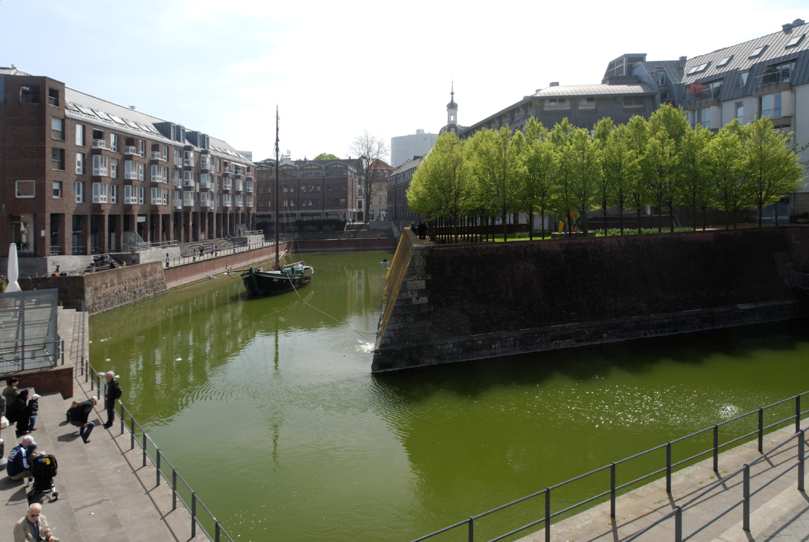 Old Harbour in Düsseldorf-Carlstadt, Germany